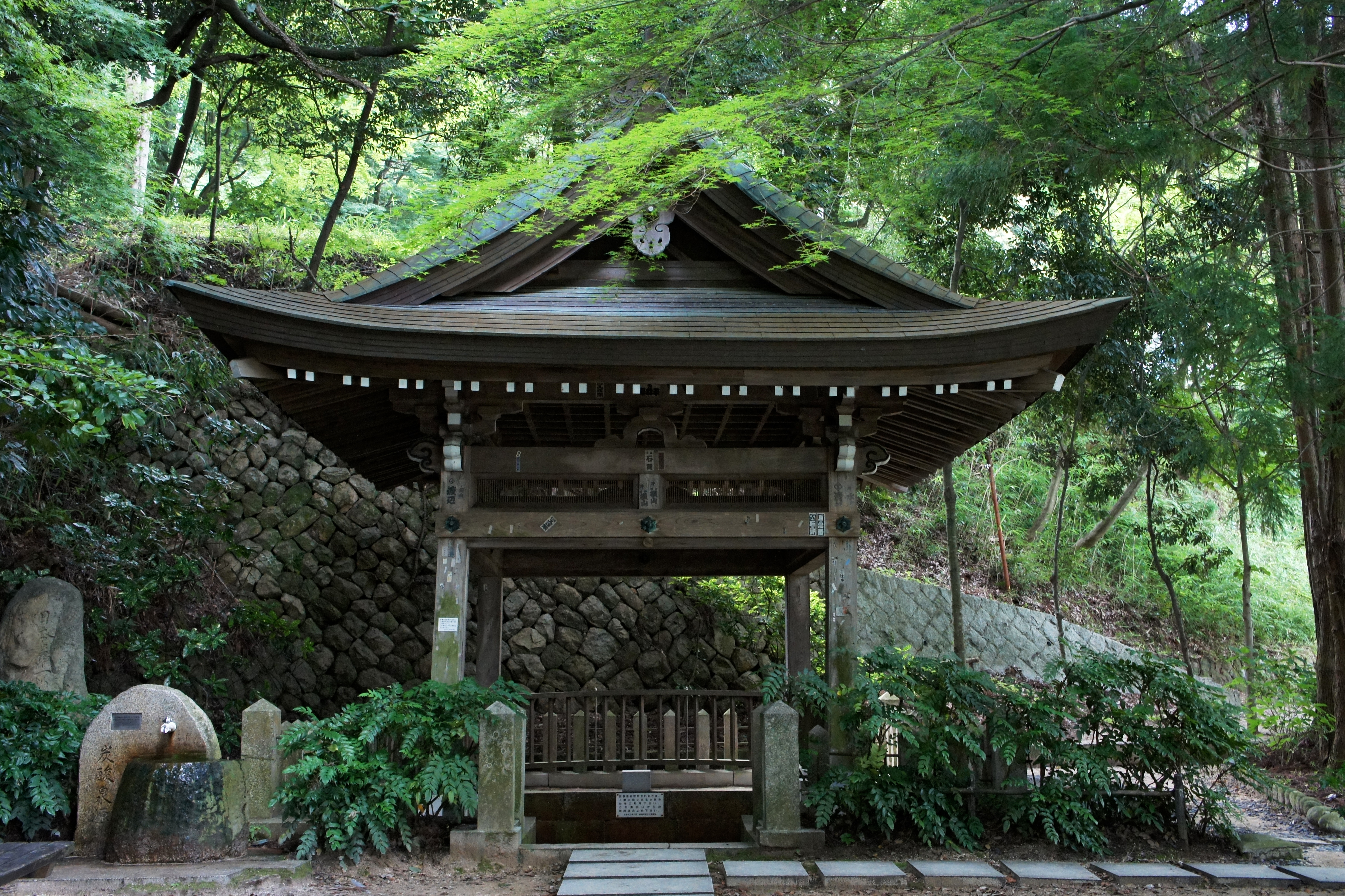 Tansan-sengen in Arima onsen, Kobe, Hyogo prefecture, Japan